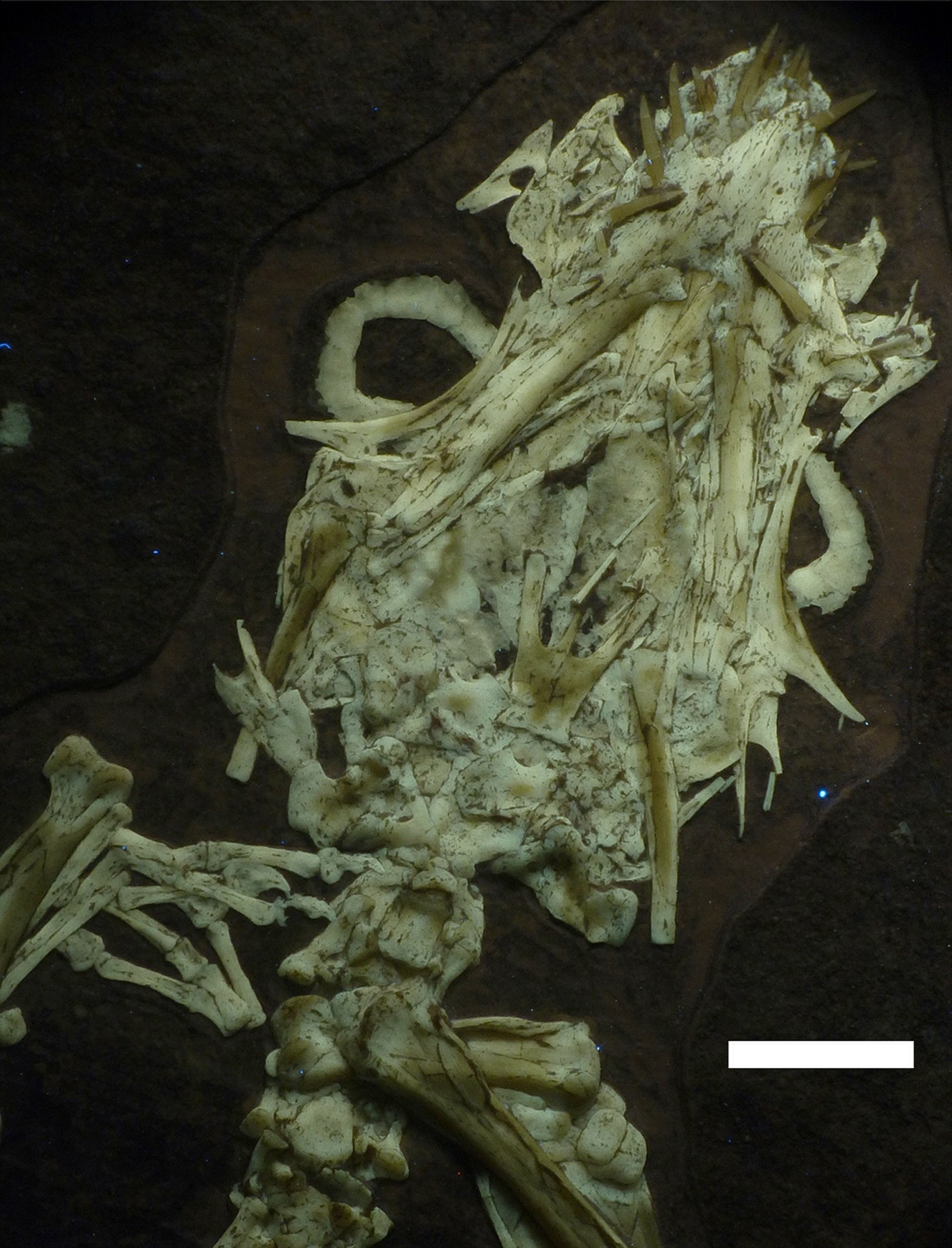 Close up of the skull of Bellubrunnus under UV light. Scale bar is 5 mm.